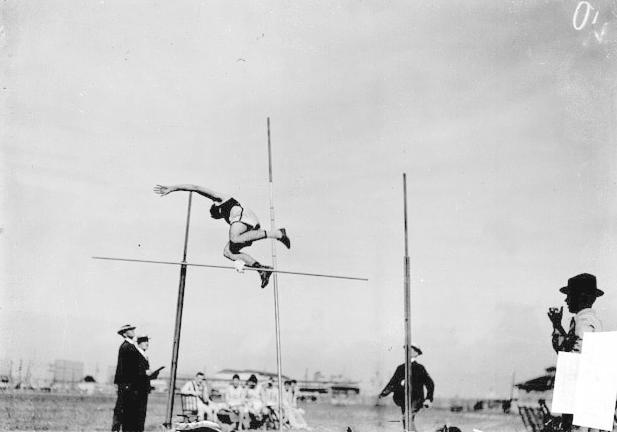 American athlete Ward McLanahan during the pole vault competition at the 1904 Olympic Games.